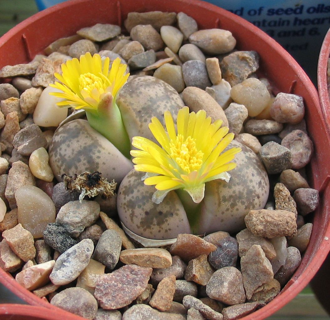 Lithops coleorum in cultivation